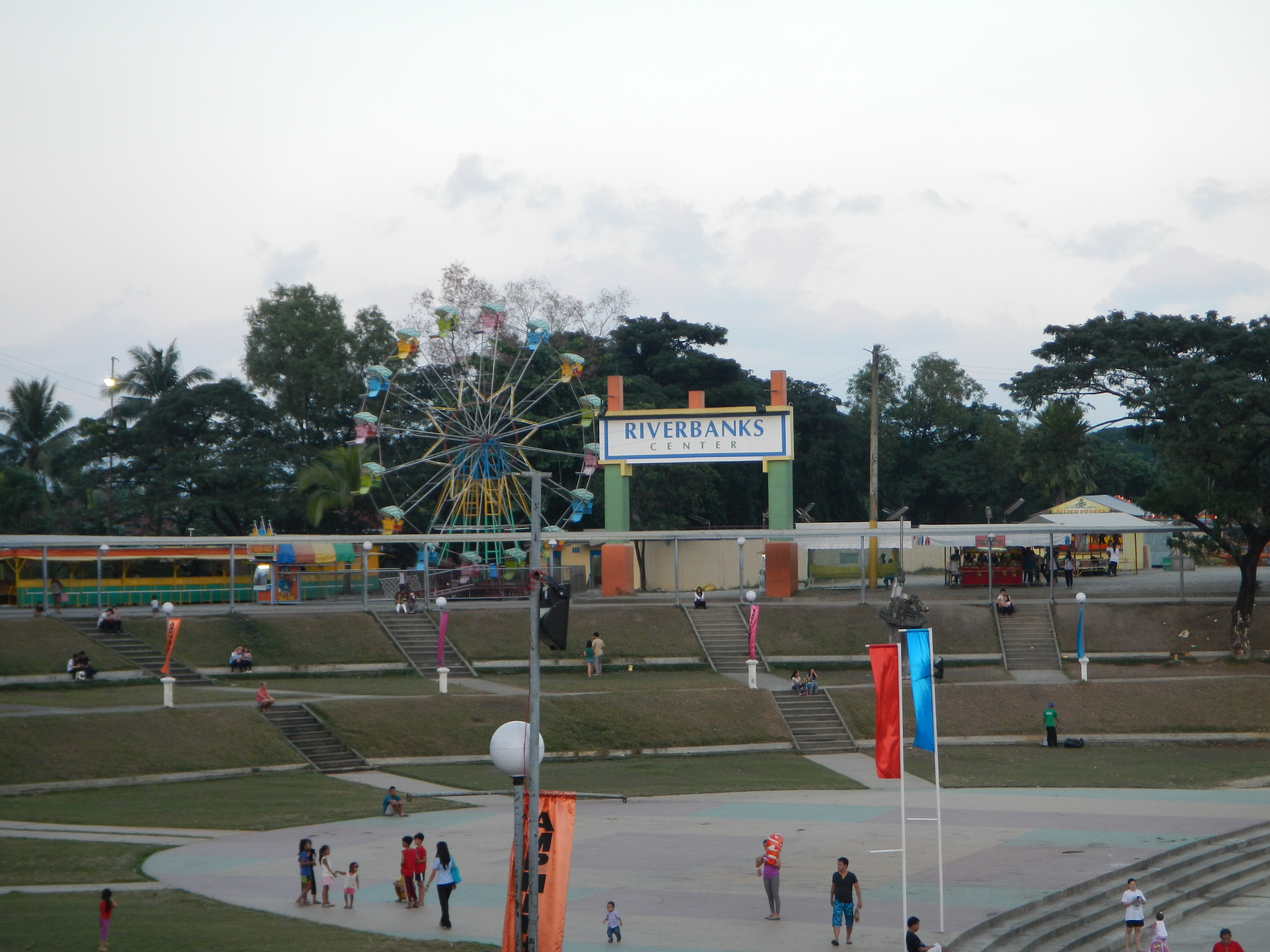 Upload Wizard photos of Marikina City [1] Hall Complex Compound -- Shoe Capital of the Philippines - Riverland Express locomotive, Jeep terminal, Marikina Sports Park, Riverbanks Center[2], including the Riverbank Mall, the Marikina City skyline, Marcos Highway,[3] Roman Garden at Marikina River[4] Park - Riverbanks Marikina a mall and office complex located off of Andres Bonifacio Avenue, Barangay Barangka, Marikina [5]City, near the Marcos Bridge over the Marikina River - world's largest pair of shoes are on display at Riverbank Center. 5.29 metres (17.4 ft) long and 2.37 metres 7 ft 9 in wide, equivalent to a French shoe size of 753, they were created over 77 days between August 5 and October 21, 2002 by Marikina City shoe industry businesspeople.